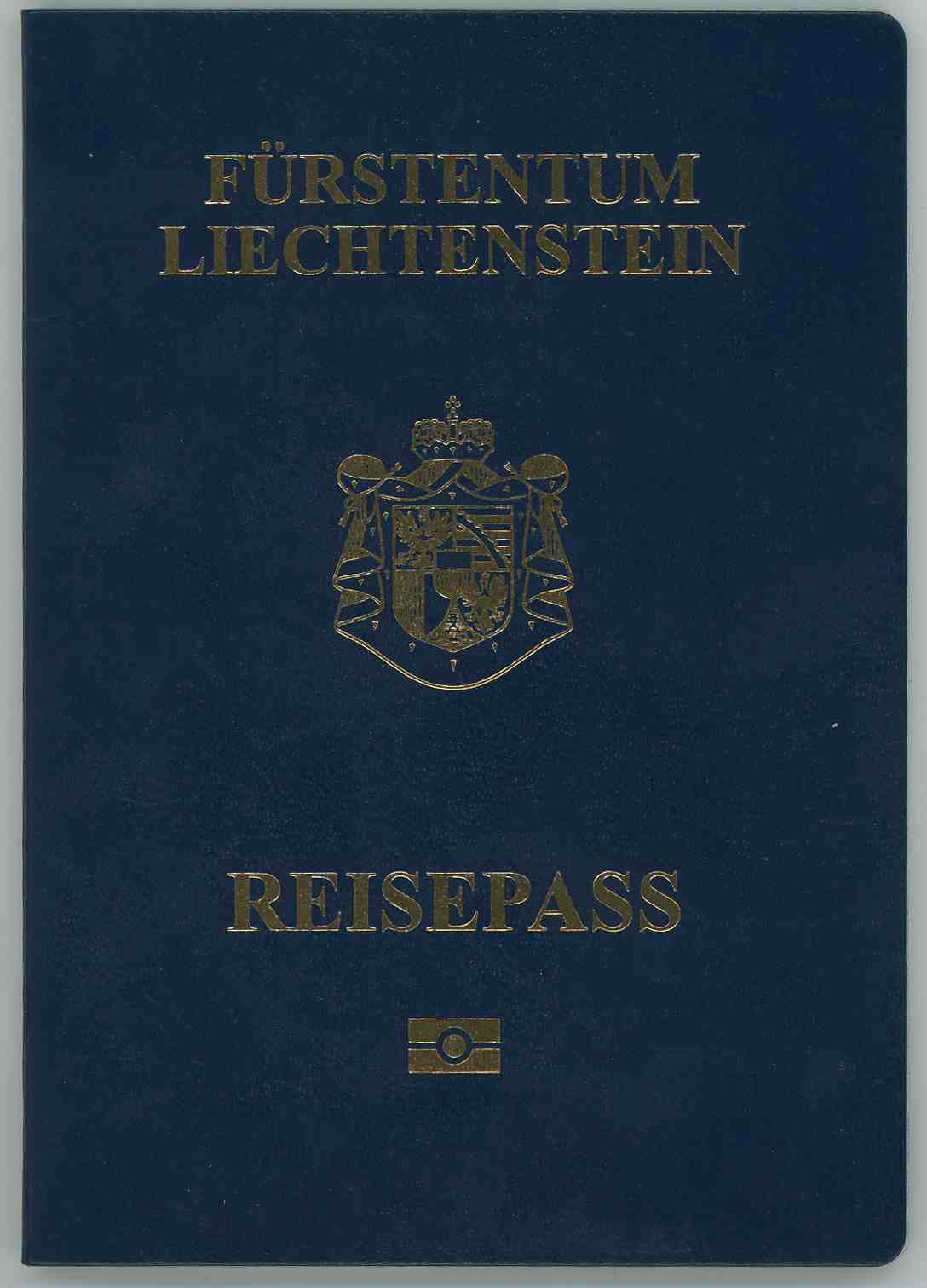 Self-made scan of my passport.